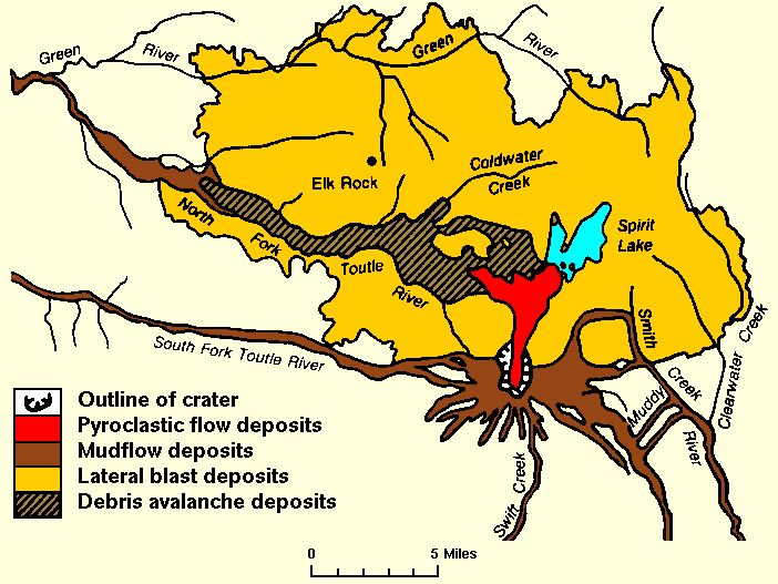 replacing jpeg version, and cropping out extraneous text. Map of the area around Mount St. Helens which were affected by the May 18, 1980 eruption. North is to the top. USGS image from [1]